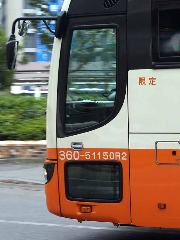 Example of door lettering for Airport Transport Service Co.,Ltd (Tokyo Kuko Kotsu: a.k.a. Limousine Bus) Model: Nissan Diesel Space Arrow ADG-RA273RBN + Nishinippon Shatai (NSK) C-1 License Plate: TKS200 KA1412（品川200か1412） Own number: 360-51150R2